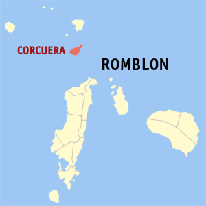 Map of Romblon showing the location of Corcuera